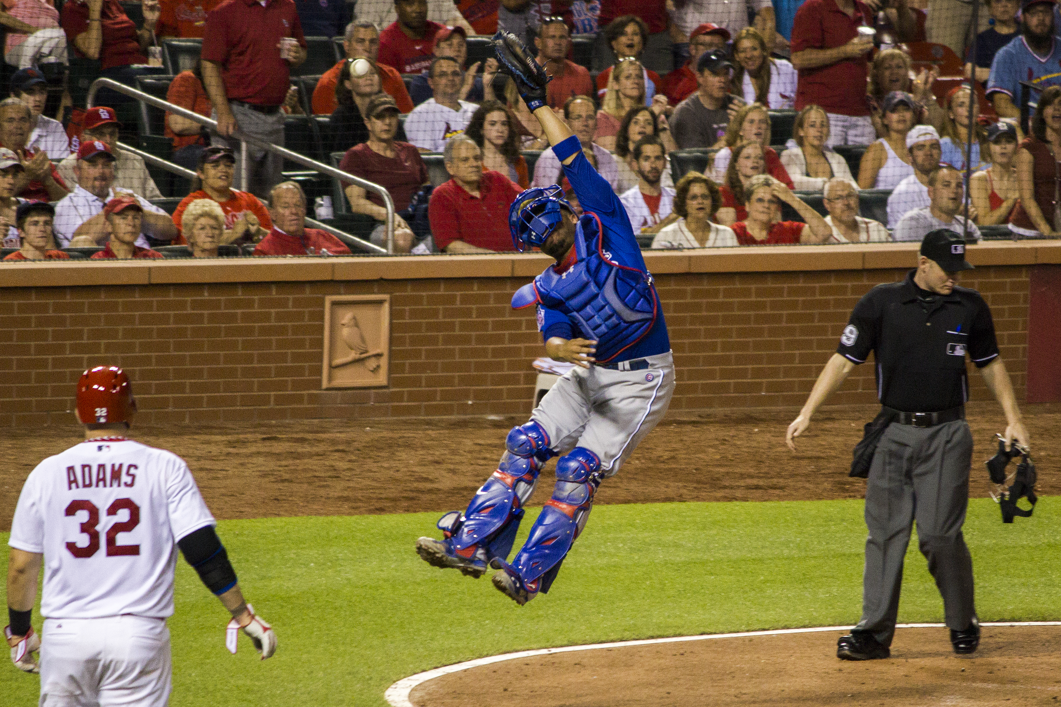 Welington Castillo of the chicago cubs 2014